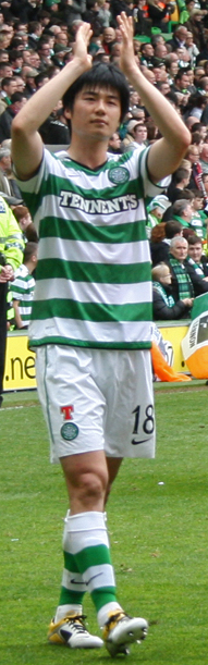 Ki Sung-Yueng on final day of the 2010/11 season.